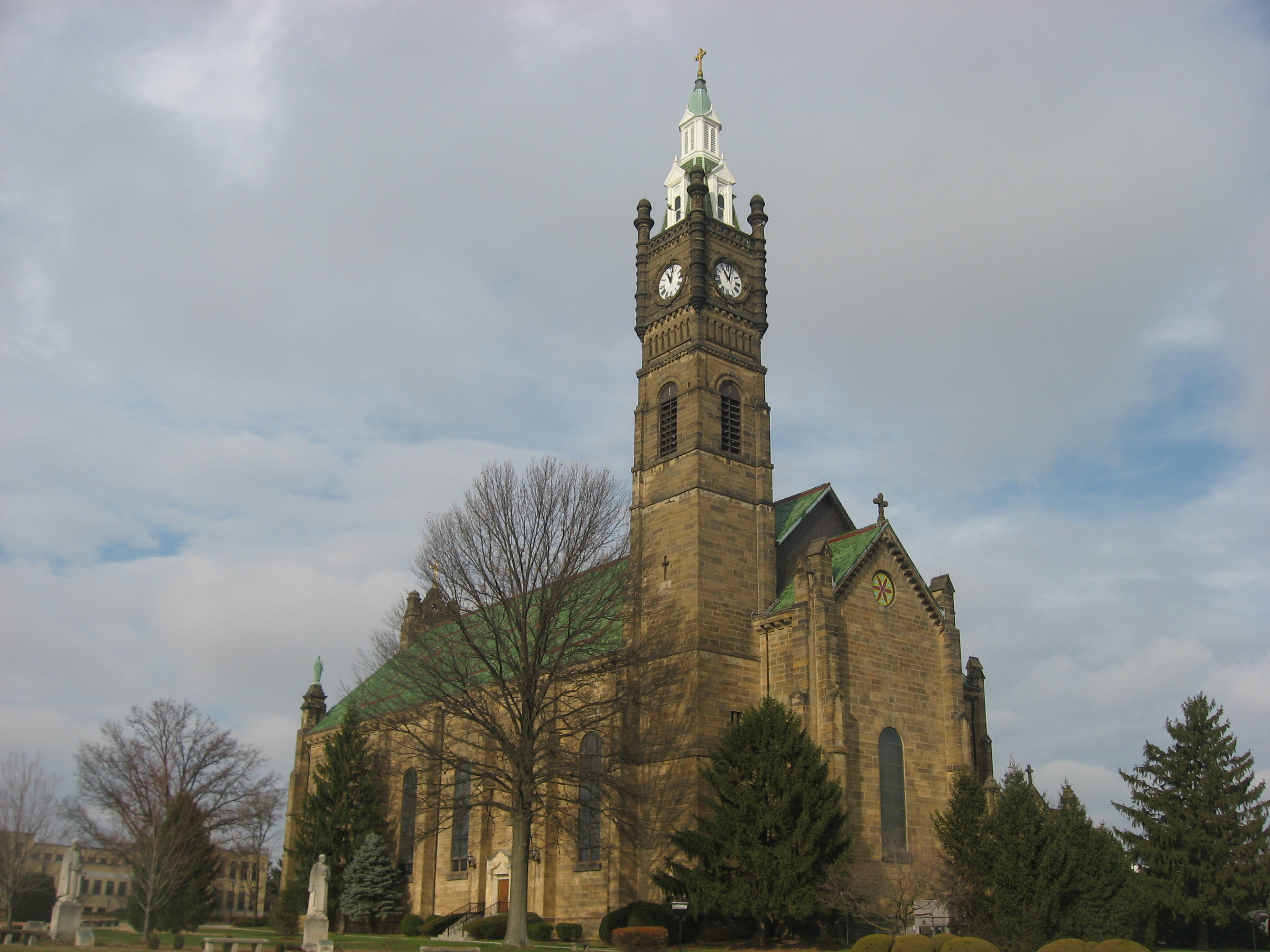 Front and southern side of St. Joseph's Catholic Church, located at 1215 N. Newton Street (U.S. Route 231/State Road 56) in Jasper, Indiana, United States. Built in 1867, it is listed on the National Register of Historic Places.